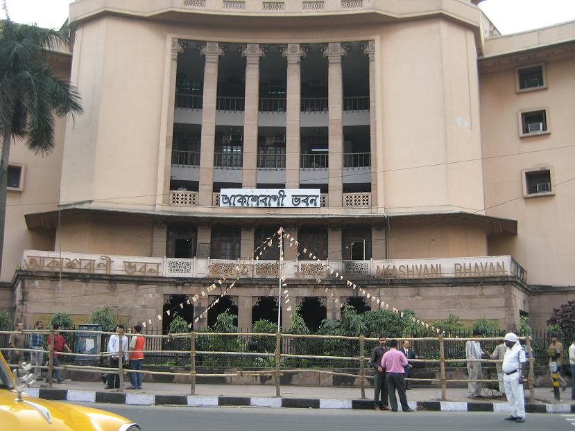 Akashvani Bhawan - The All India Radio office in Kolkata